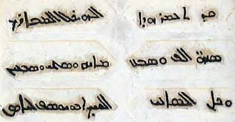 Entrance inscription of Mar Awtel Church, Kfarsghab, 1782